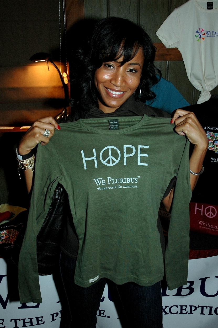 Faune Chambers